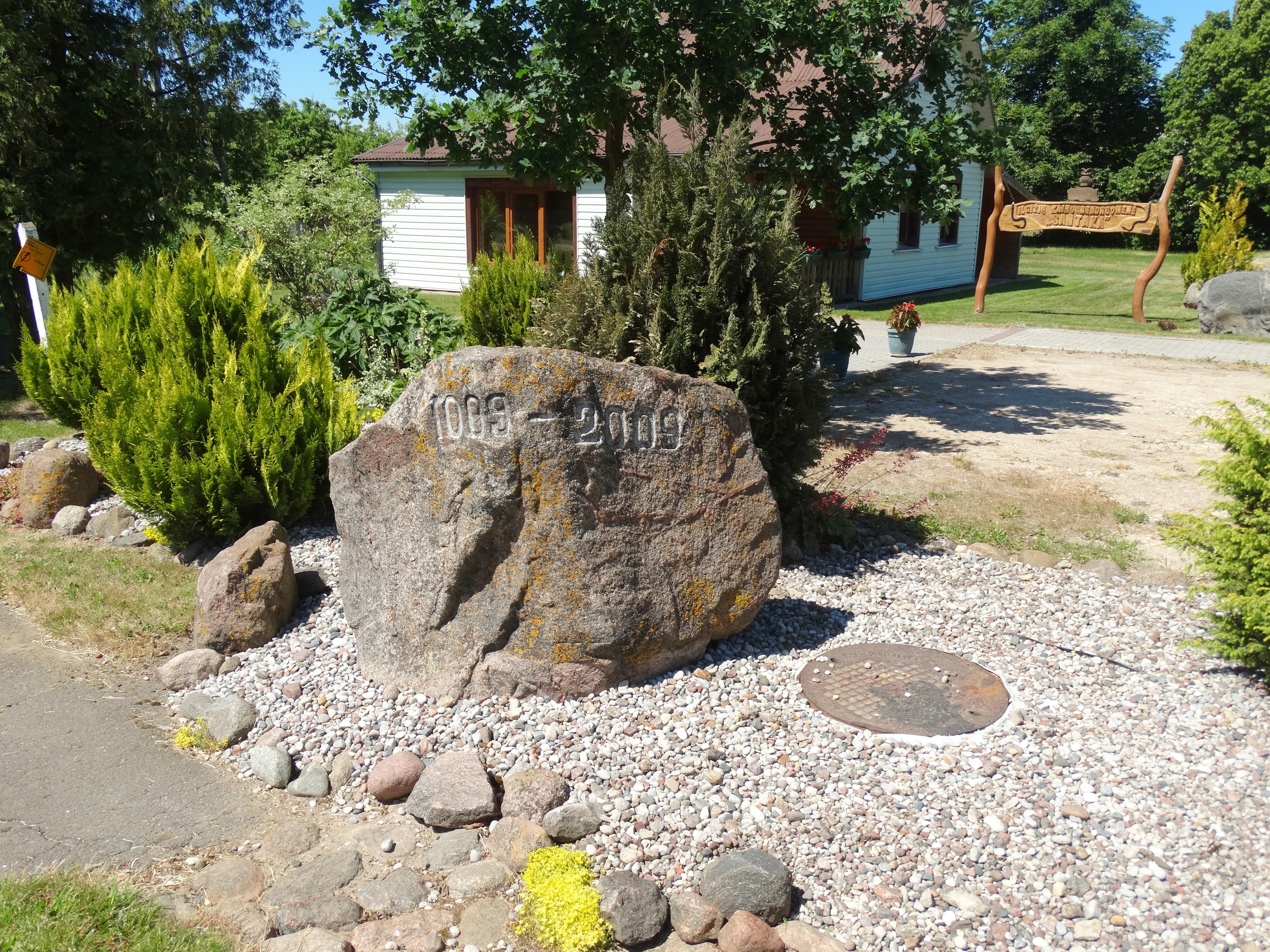 Ilgižiai, Raseiniai District, Lithuania